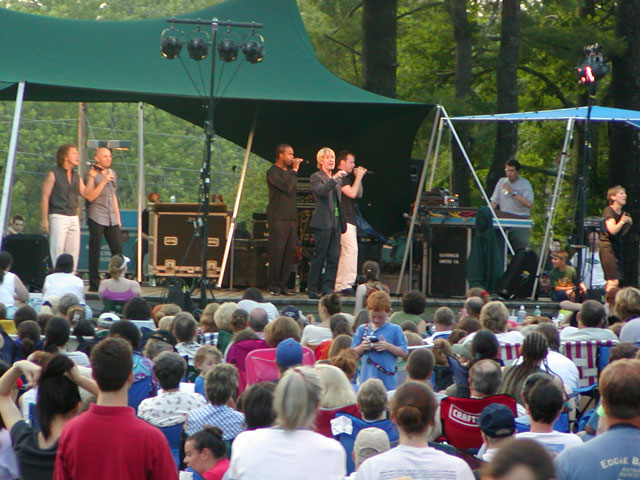 Rockapella performs in Freeport, Maine, as part of the L.L. Bean Summer Concert Series.